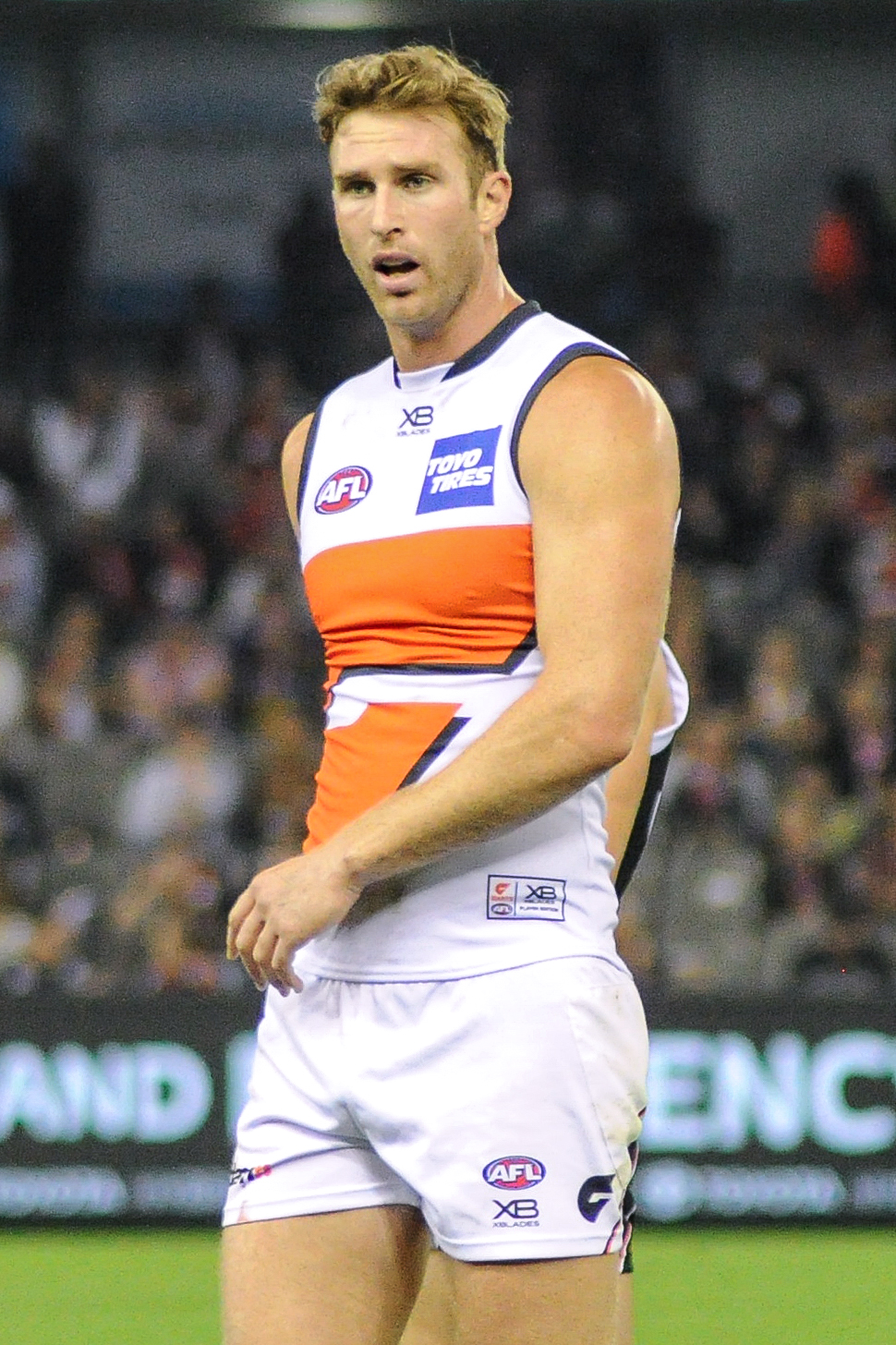 Dawson Simpson during the AFL round five match between St Kilda and Greater Western Sydney on 21 April 2018 at Etihad Stadium in Melbourne, Victoria.